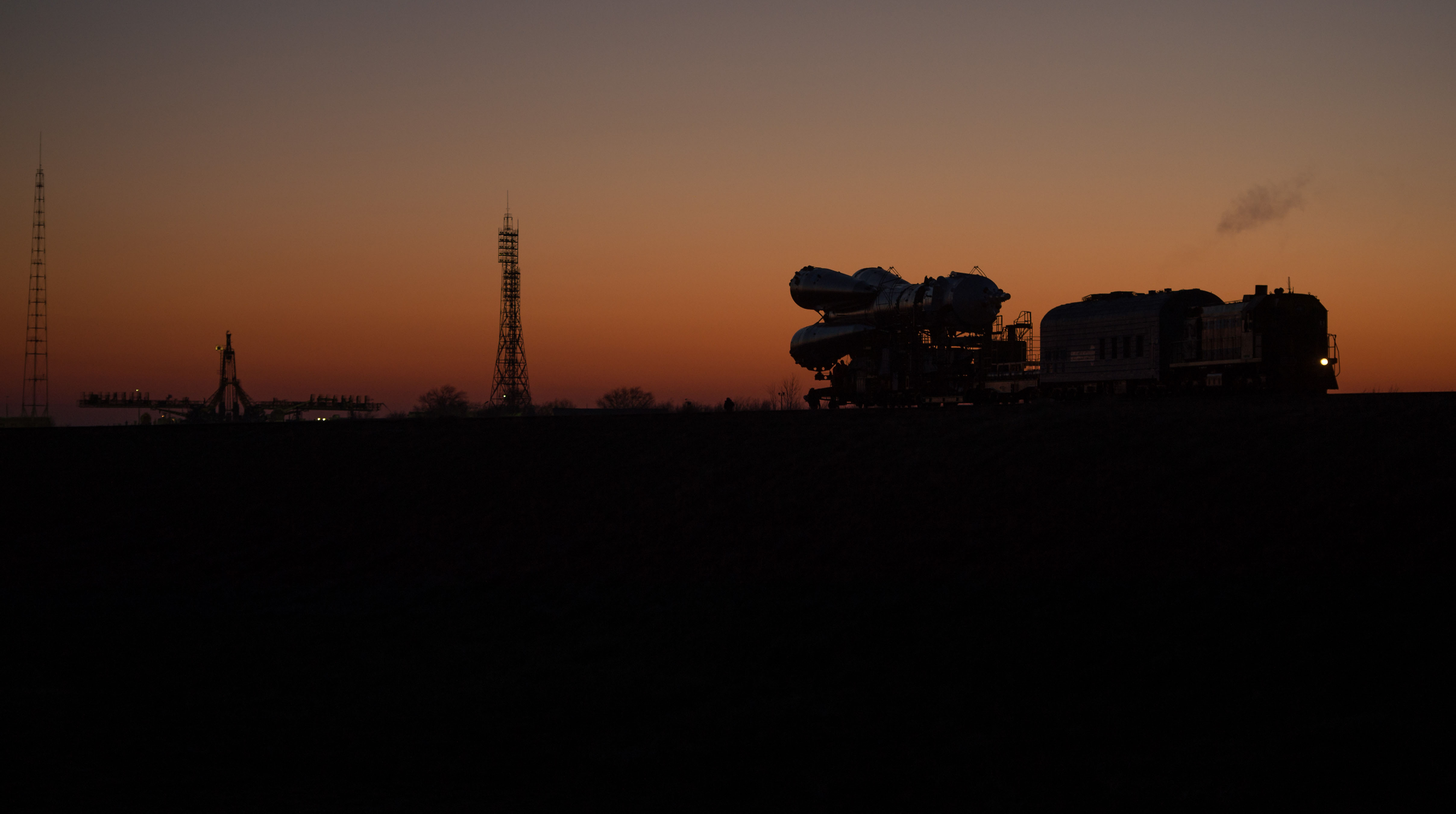 The Soyuz rocket is rolled out to the launch pad by train on Dec. 17, 2012, at the Baikonur Cosmodrome in Kazakhstan. Launch of the Soyuz rocket is scheduled for Dec. 19 and will send Expedition 34 Flight Engineer Tom Marshburn of NASA, Soyuz Commander Roman Romanenko and Flight Engineer Chris Hadfield of the Canadian Space Agency on a five-month mission aboard the International Space Station.